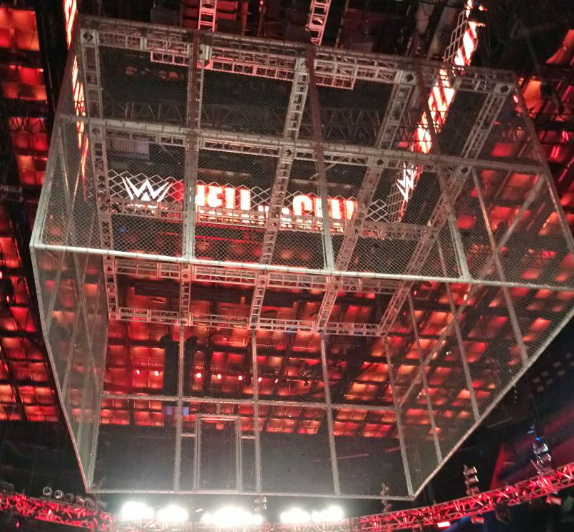 'Hell in a Cell' 2017 in Detroit, Michigan.